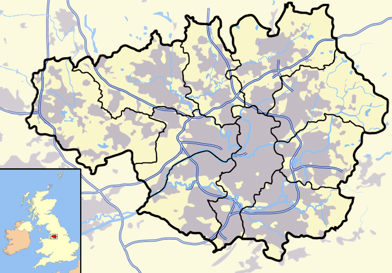 A map of the metropolitan county of Greater Manchester, in North West England. Appended to the bottom left is a mini map of the British Isles with Greater Manchester's location and relative size marked in red. On the main map rural areas are in yellow; urban areas are in grey; district and county boundaries are in black; bodies of water are in light blue; motorways are in dark blue with a white stripe.